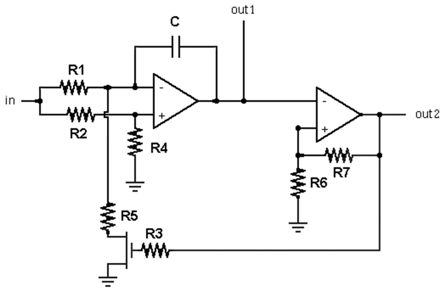 my own work